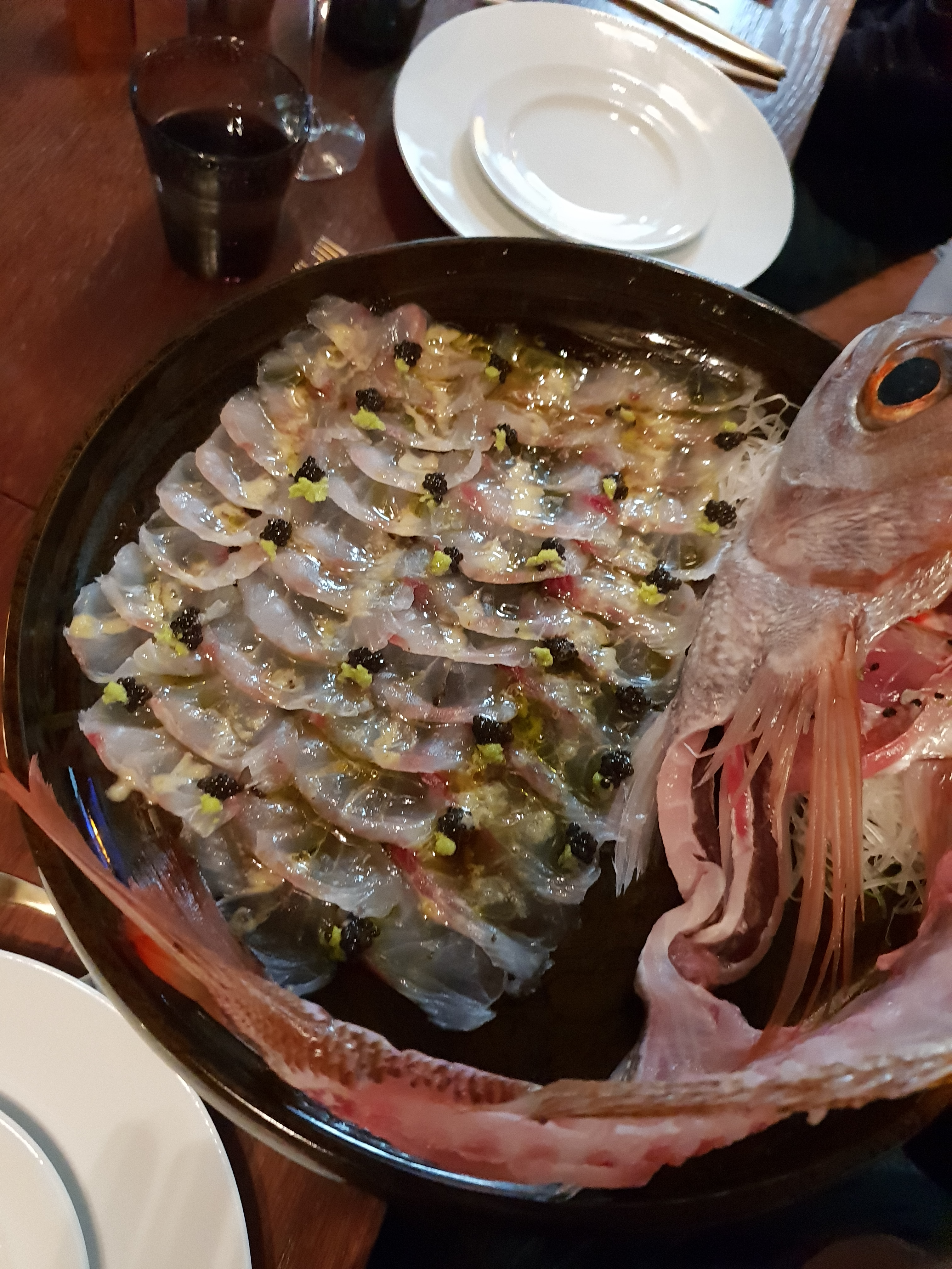 sashimi plate presented with the fish carcass in the plate